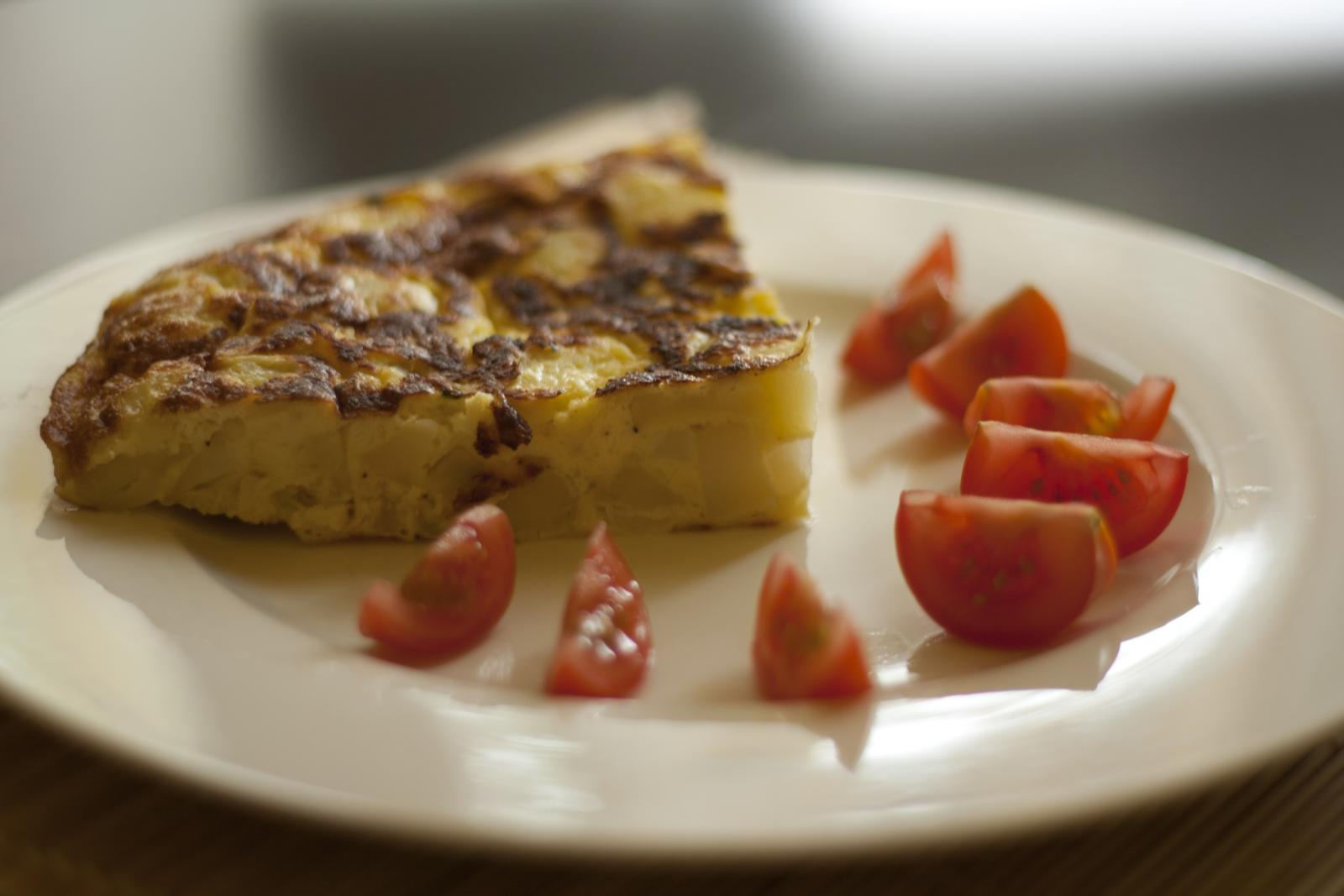 Spanish Tortilla with some tomatoes (Recipe in italian: )